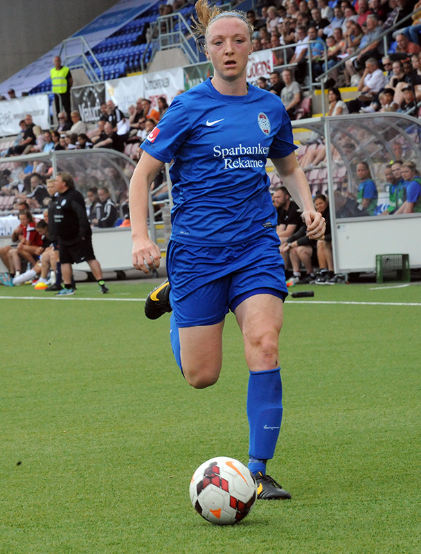 Irish footballer Louise Quinn playing for Eskilstuna United